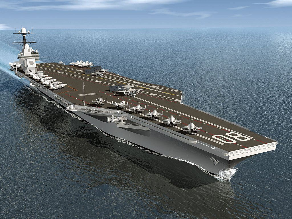 A graphic showing what the future USS ENTERPRISE (CVN 80) is expected to look like when she joins the fleet after 2025. The aircraft are F-35C Lightning II Joint Strike Fighters, F/A-18 E and F Super Hornet strike fighters, E-2D Hawkeye electronic warfare planes, and an unmanned strike jet modeled on the X-47B sitting on the No. 4 catapult. Pennant number orientation on flight deck has been corrected.